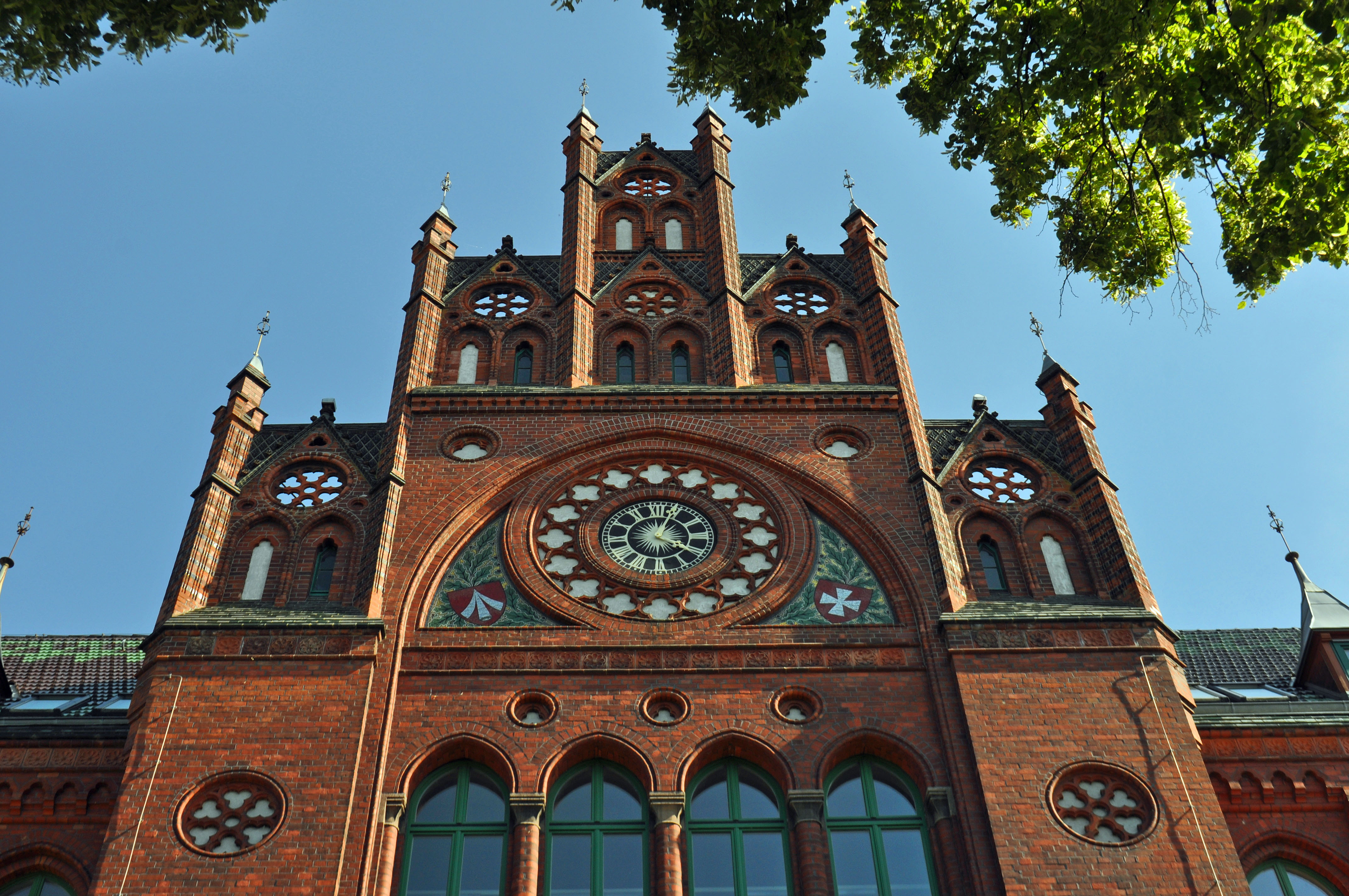 Frankenwall 25 (Stralsund), mittlerer Giebel This is a photograph of an architectural monument.